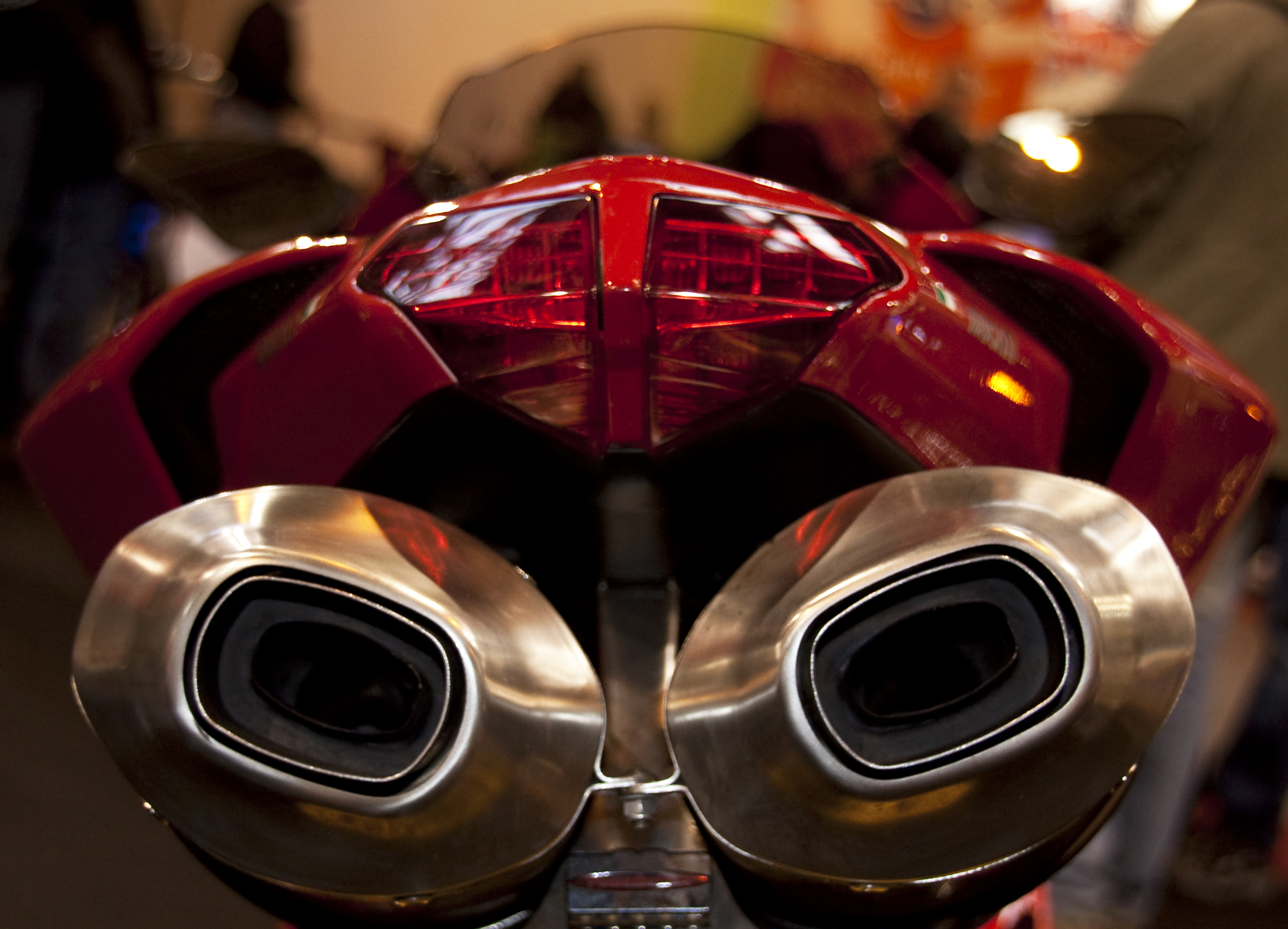 Ducati 1098 tail light